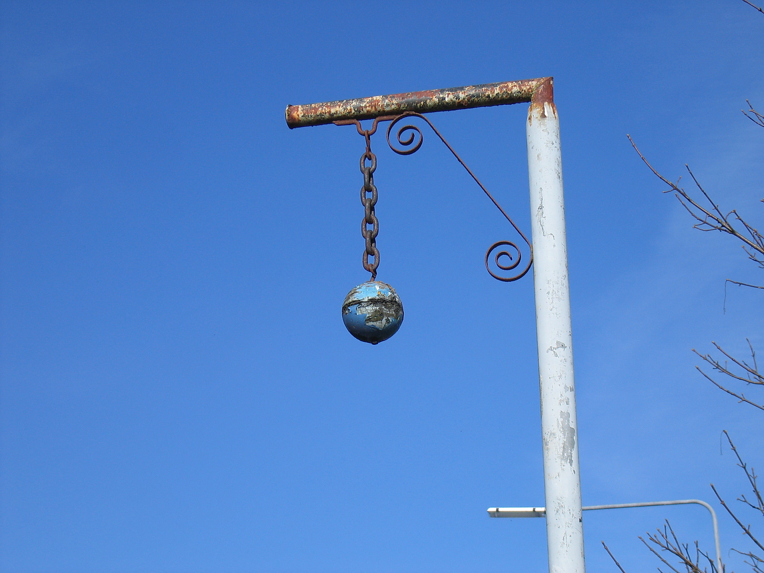 The Blue Ball on the side of the N52 at Blue Ball, County Offaly.